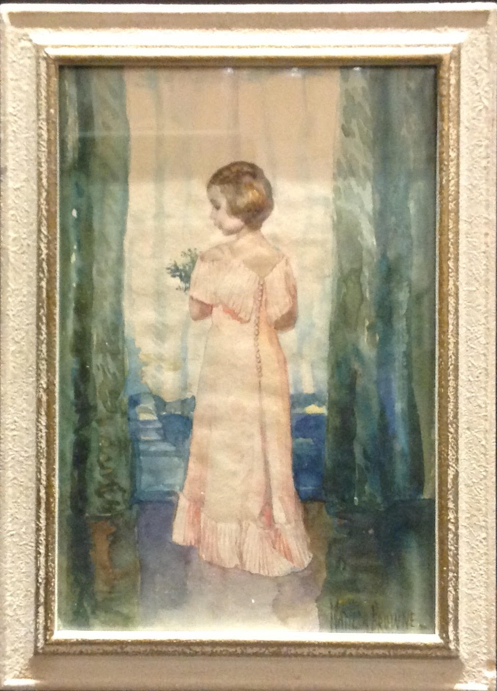 Image of young girl dressed in a pink party gown